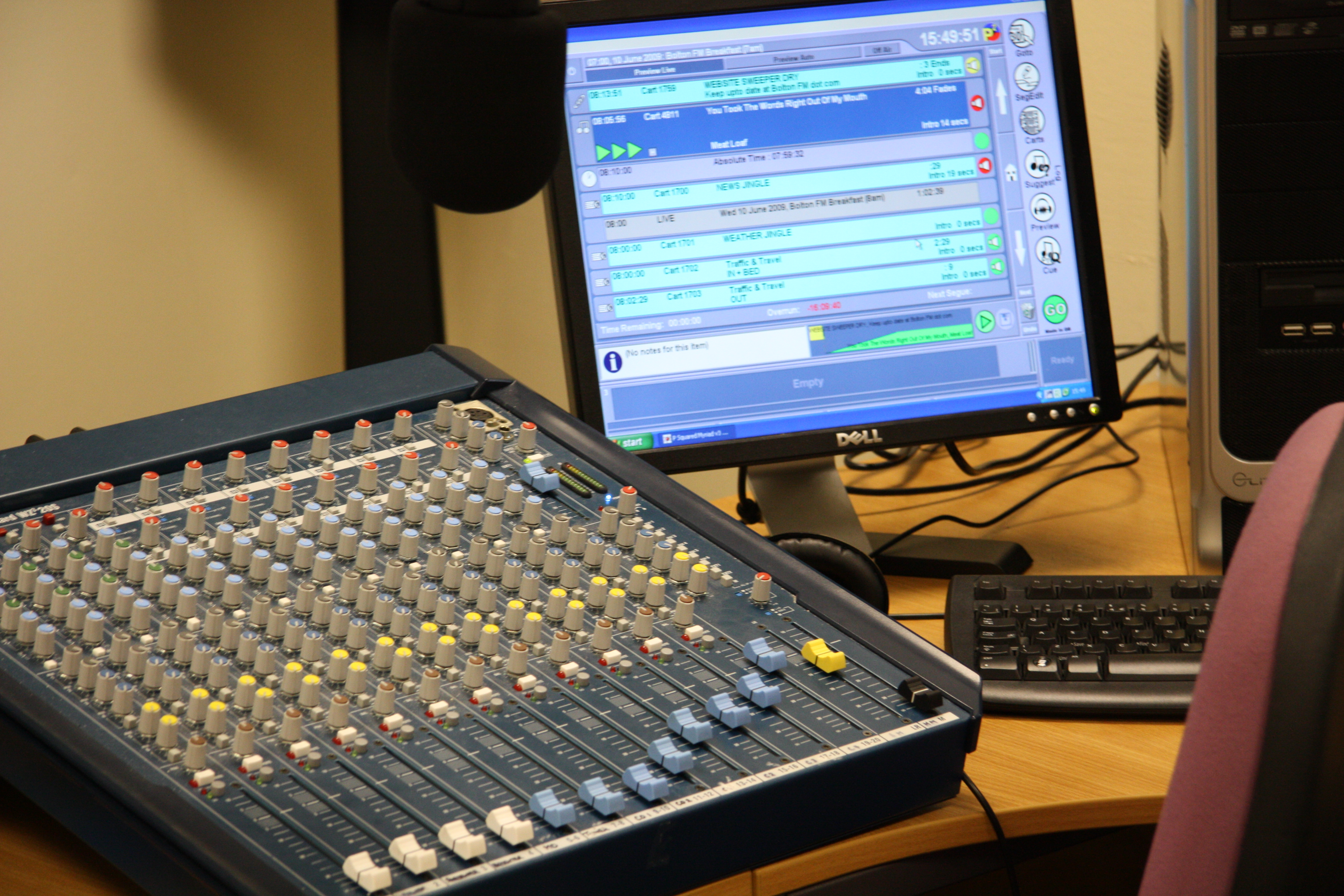 Bolton FM Allen & Heath MixWizard WZ3 20S